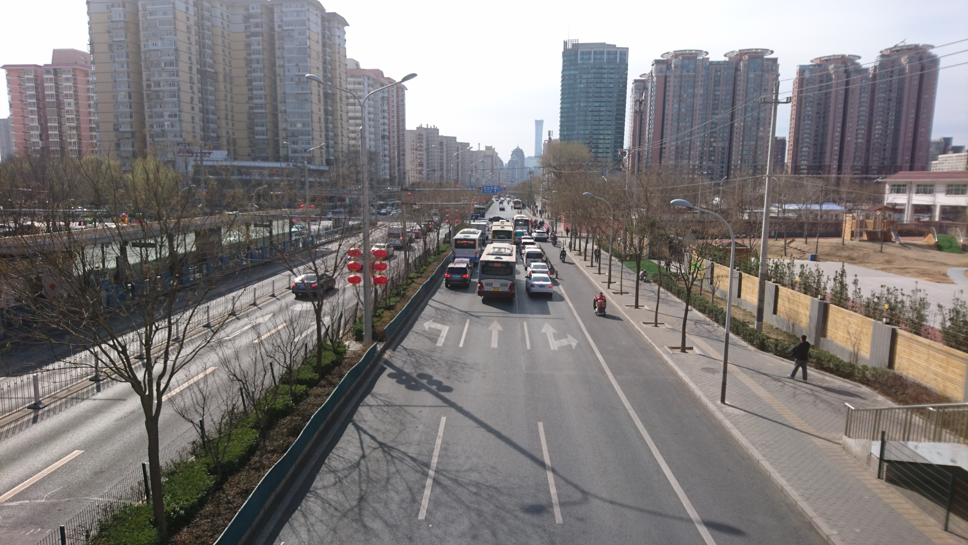 Taipingzhuang, Chaoyang Road, Beijing